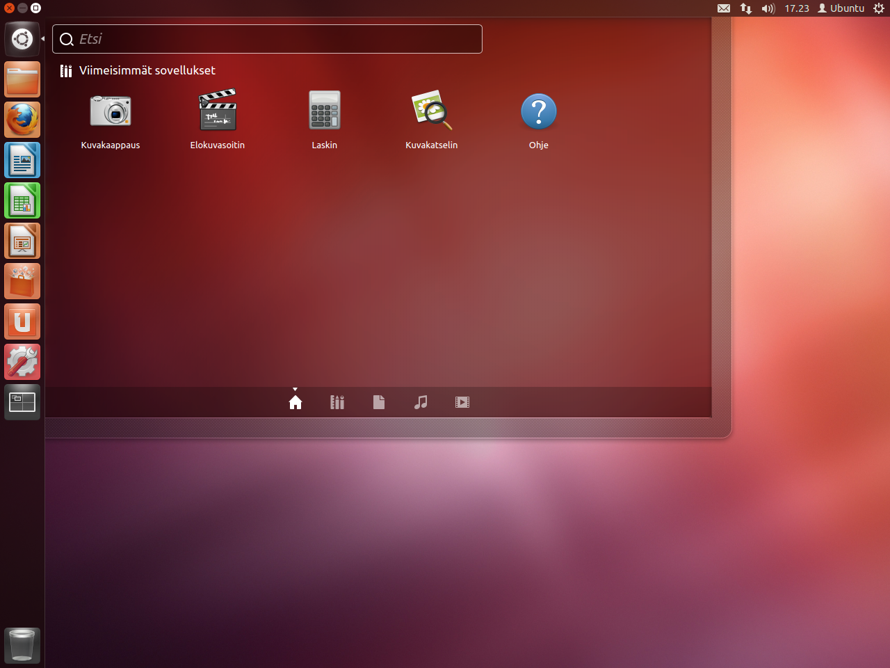 Ubuntu 12.04 Unity dash with finnish language